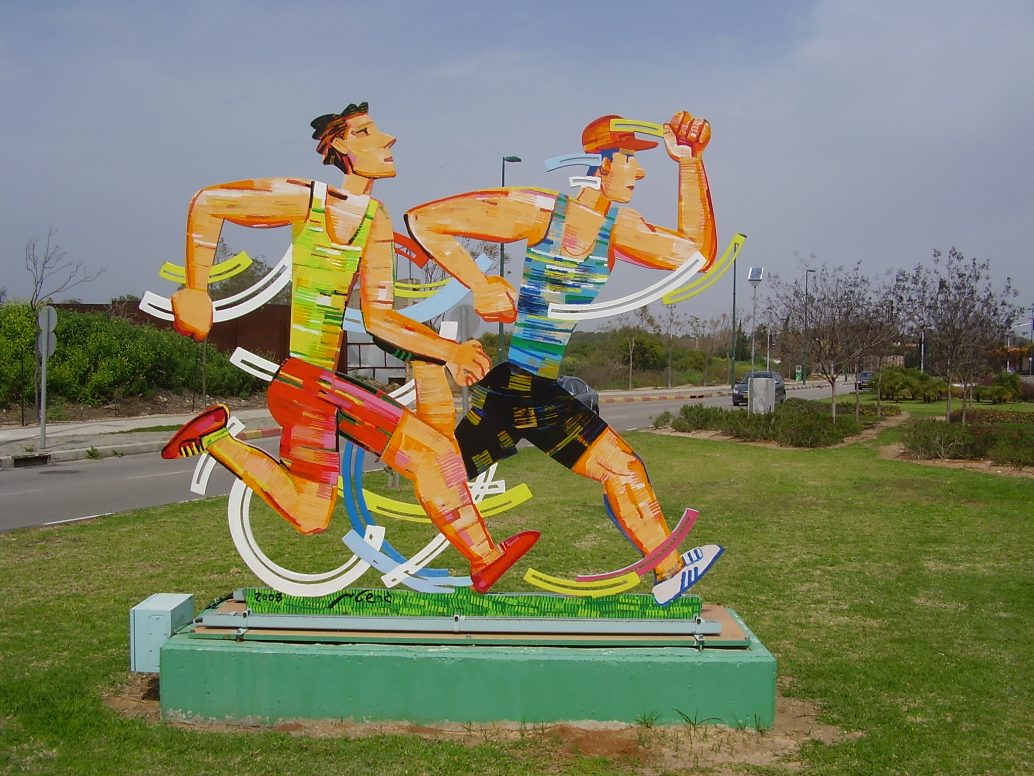 Sculpture by David Gerstein in Netanya